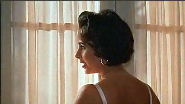 Screenshot of Elizabeth Taylor from the trailer for the film Cat on a Hot Tin Roof (film)